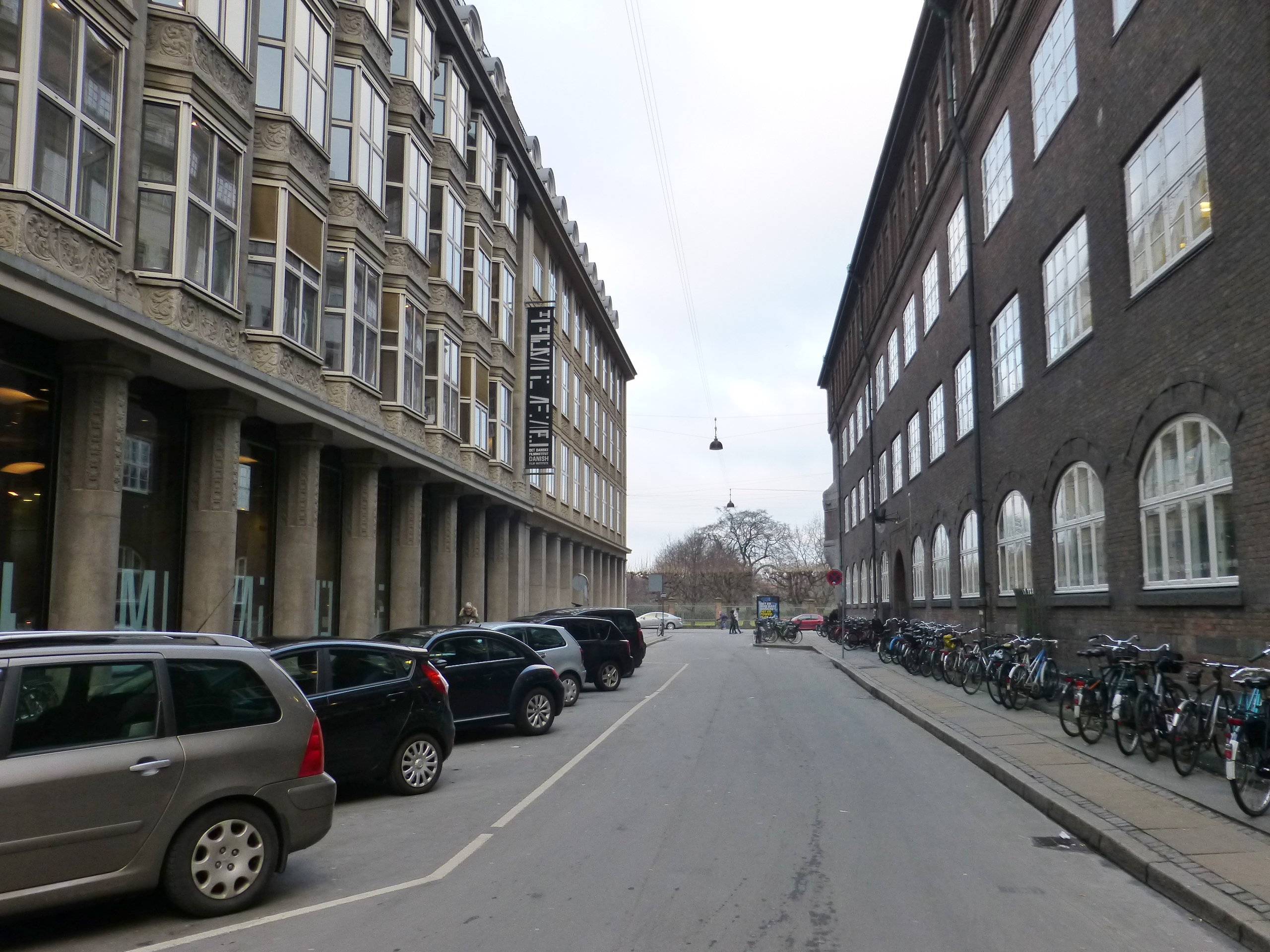 The street Lønporten in Indre By in Copenhagen.